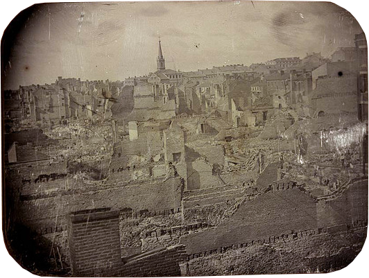 Ruins of the Great St. Louis Fire, 17-18 May 1849. Daguerreotype by Thomas M. Easterly, 1849.